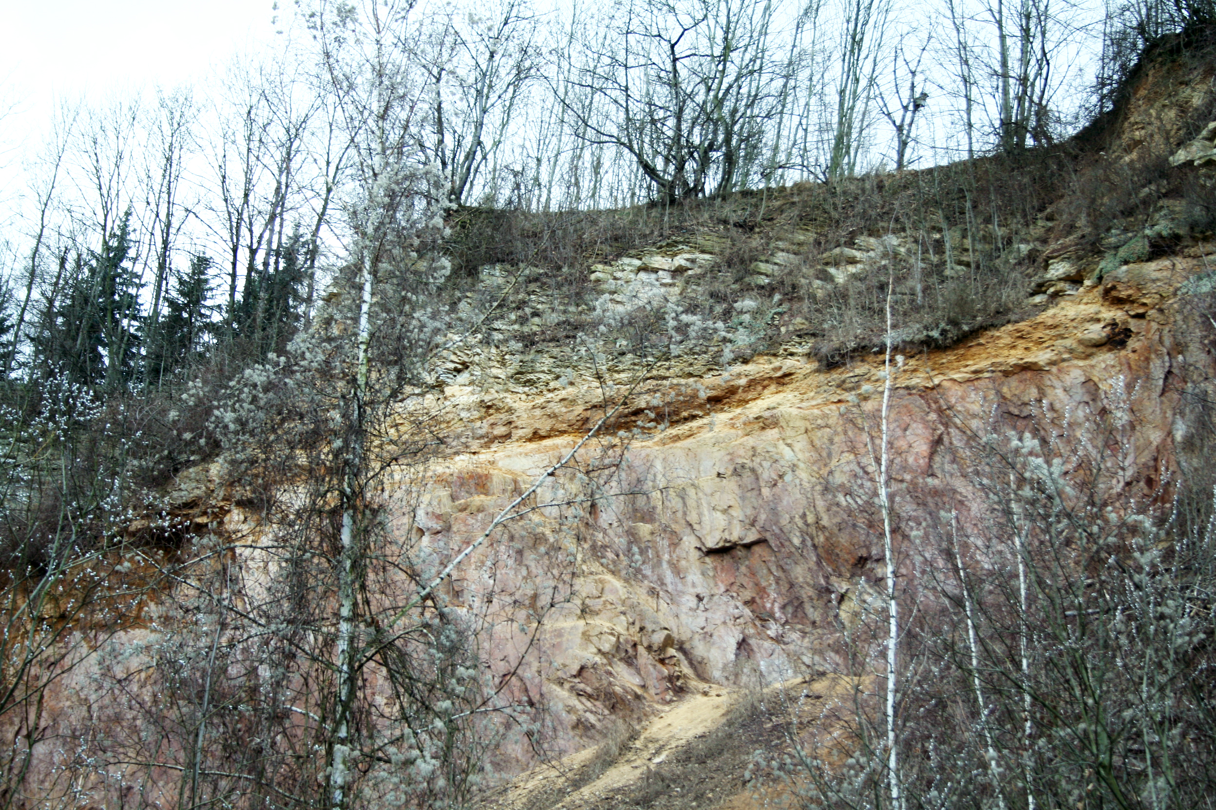 Quarry called “Ratssteinbruch” at Plauenscher Grund (gorge-like valley of the river Weißeritz nearby/in the city of Dresden, Saxony, Germany), Upper Carboniferous Monzonite (historically identified as Syenite) of the Meißen Massif (Paleozoic basement) unconformably overlain by Upper Cenomanian beds of the Dölzschen Formation, yellowish basal conglomerate and overlying bluish silty clay-marlstone (“plenus-Pläner”) of the Saxo-Bohemian Cretaceous Basin (Mesozoic platform).[1] ↑ a b stratigraphy and lithology according to Markus Wilmsen, Birgit Niebuhr: Stratigraphie und Ablagerungsbedingungen der Kreide in Sachsen (Elbtal-Gruppe, Cenomanium–Unterconiacium). Geologica Saxonica 60(2):347–369 (PDF 5.2 MB), see pp. 355–357 therein